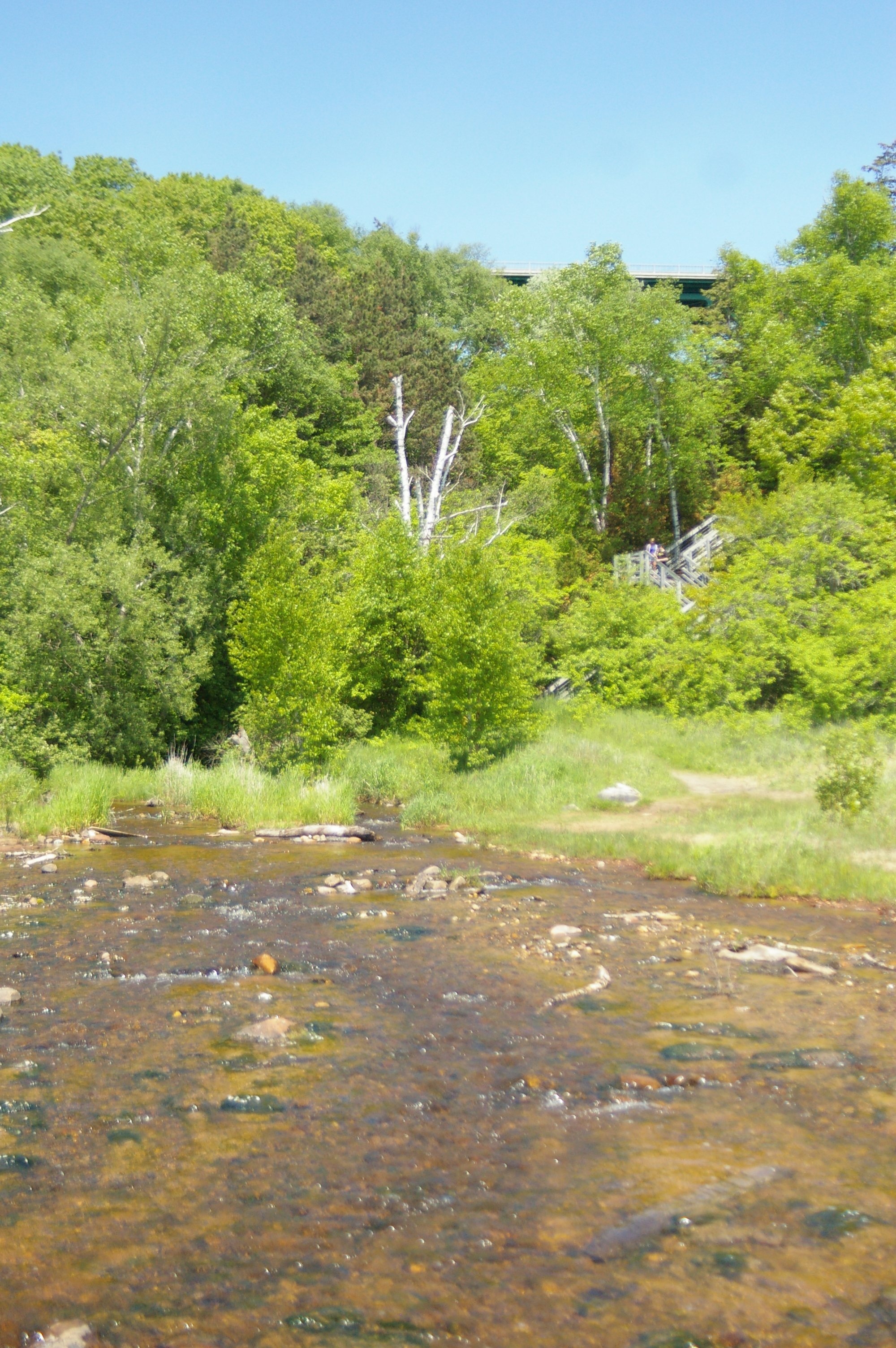 View of the cut river taken from the mouth of the river at Lake Michigan looking back north to the Cut River Bridge.